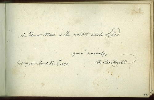 "An Honest Man is the noblest work of God. yours sincerely, Charles Asgill, Göttingen April the 4th 1778."